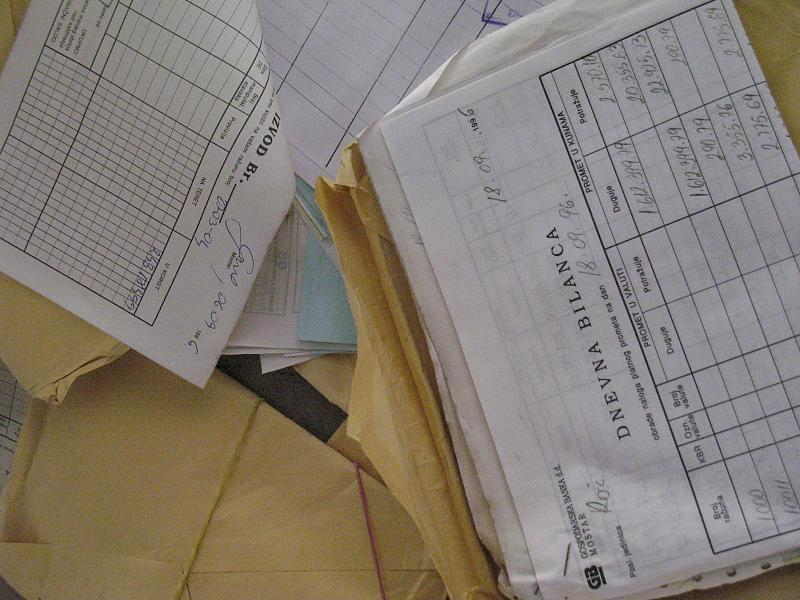 Destroyed Bank building in Mostar (Herzegovina). This building was never used as bank building. When the construction was finished, war broke out. It is one of the highest buildings of Mostar with a good view over the city, that is why it was occupied by snipers. After the war a company established in a wing offices, but they seem to have suddenly been abandoned, anywhere on the floor are documents and folders with (or without) confidential information. (translation of Dutch original description)